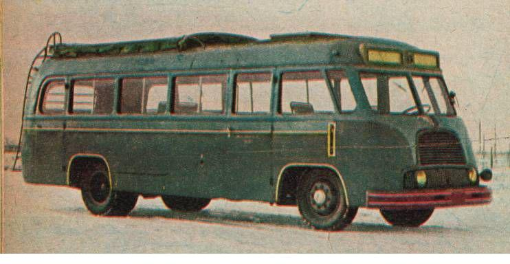 A Polish Star N52 bus in Poland.